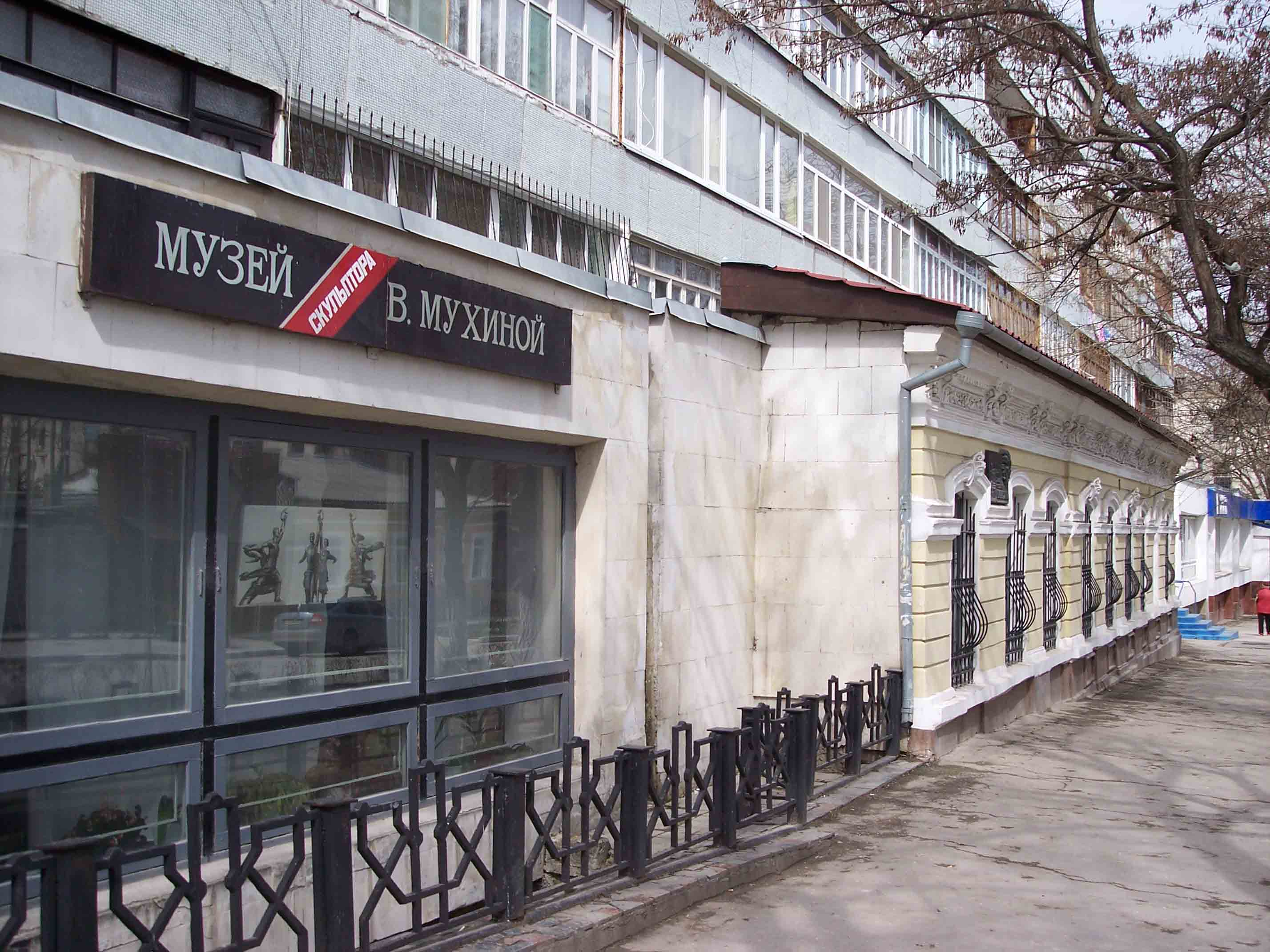 Muhina's Museum, Feodosia, Crimea, Ukraine